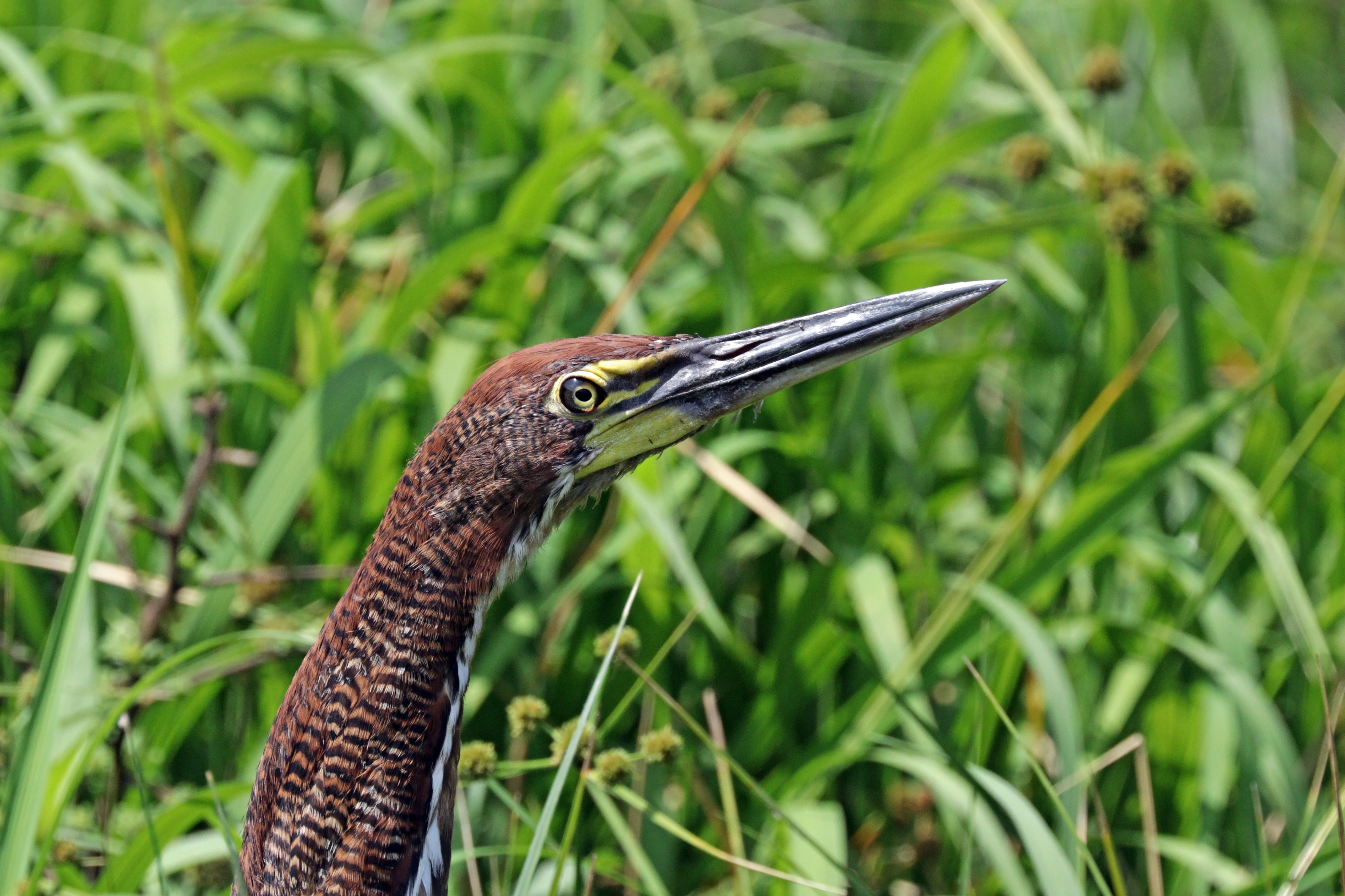 Rufescent tiger heron (Tigrisoma lineatum lineatum) young adult head, Chagres River, Panama